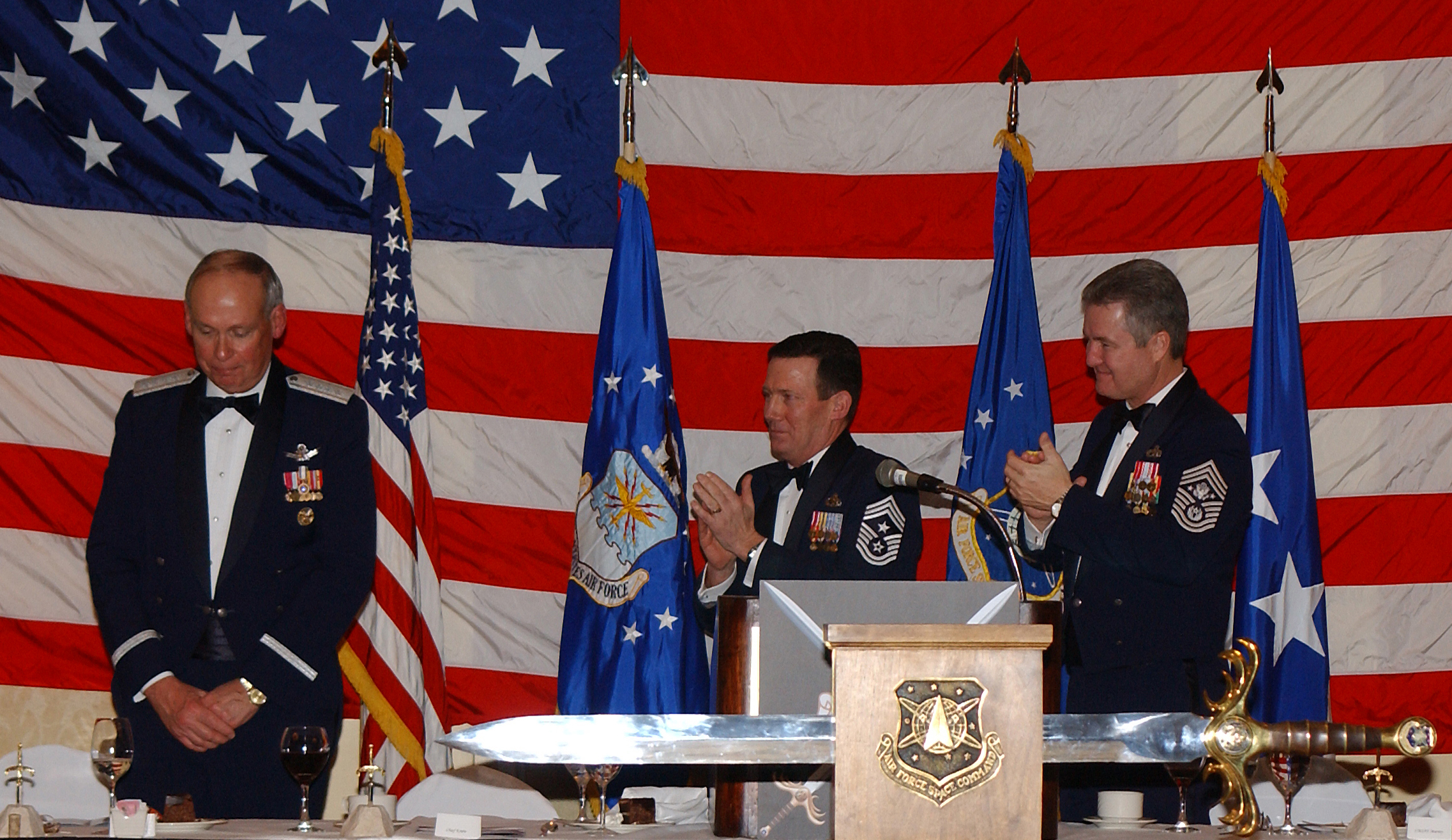 General Lance W. Lord, Commander, Air Force Space Command, was inducted into the command’s Order of the Sword February 11. Chief Master Sergeant Ron Kriete, Air Force SPace Command's command chief master sergeant, performed sergeant major duties and Chief Master Sergeant of the Air Force Gerald Murray was the guest speaker. The Order of the Sword is the highest honor the Air Force enlisted corps can bestow upon an individual.